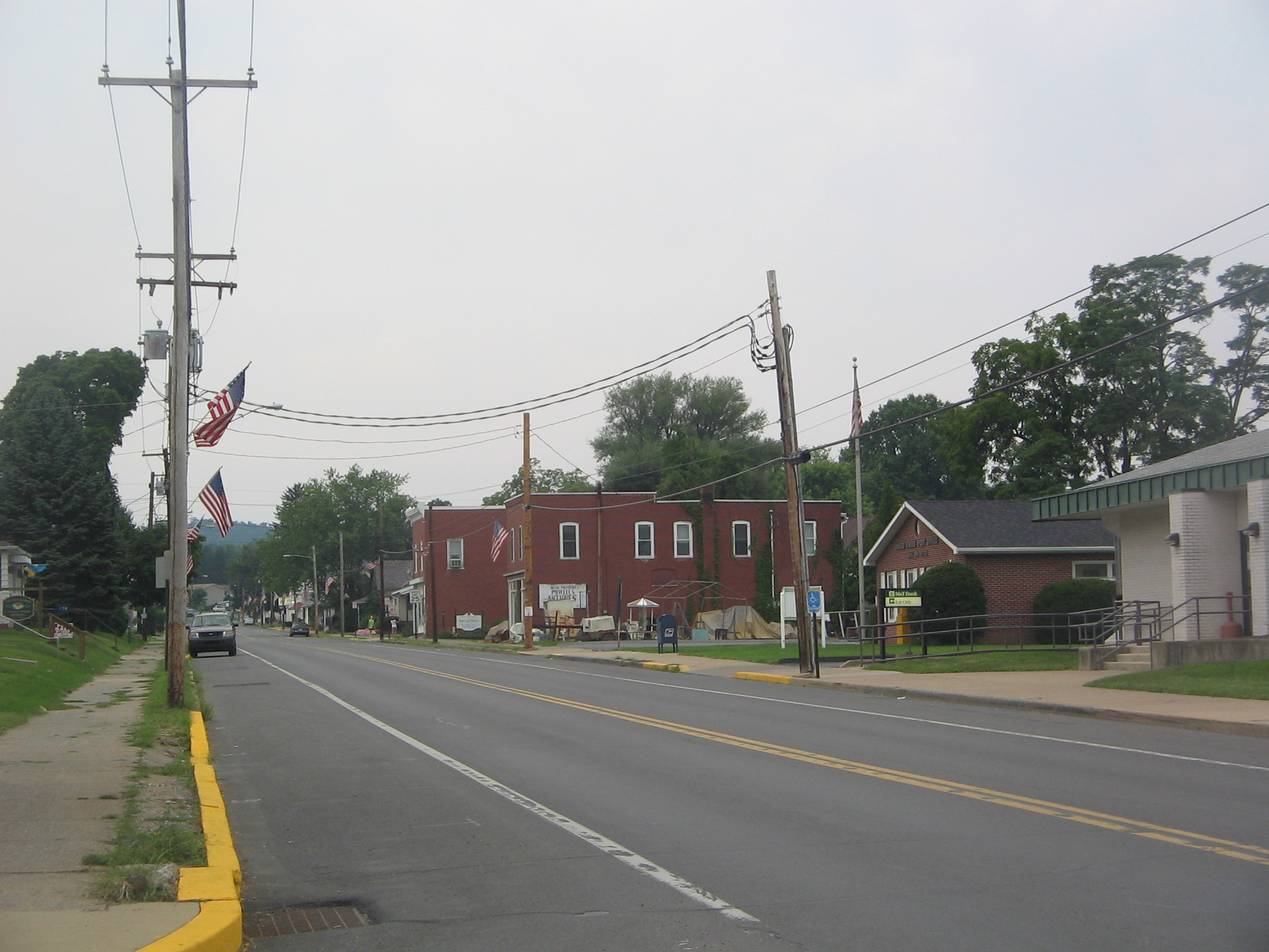 Looking west on Central Avenue from the Fire Station in Avis, Pennsylvania, USA.